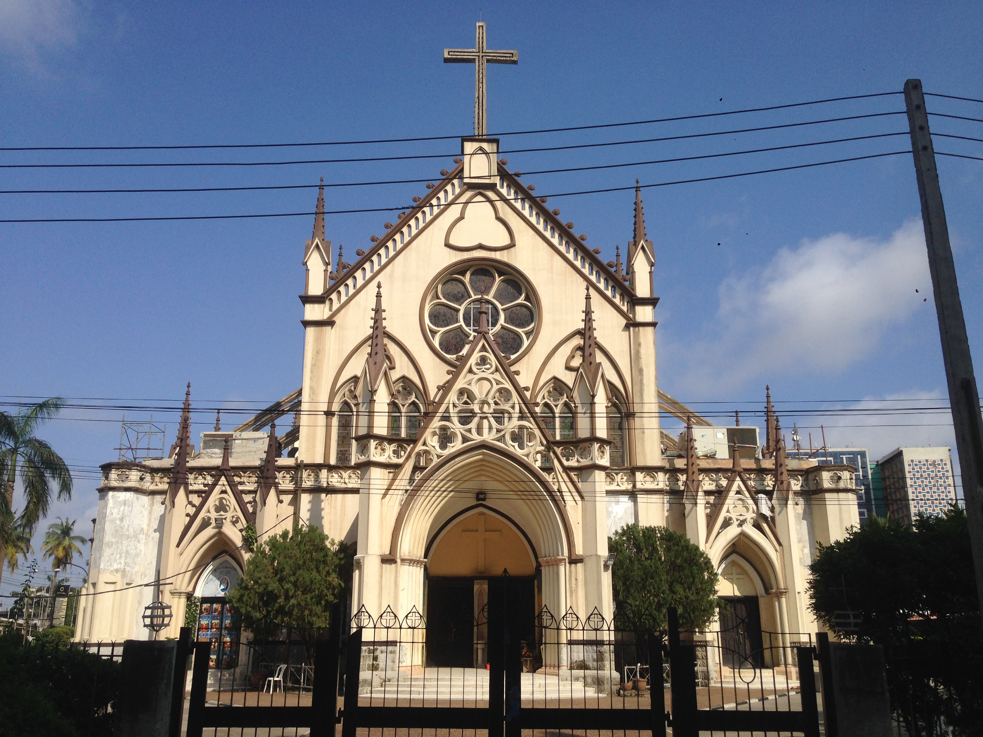 Facade of the Holy Cross Cathedral, Lagos Island